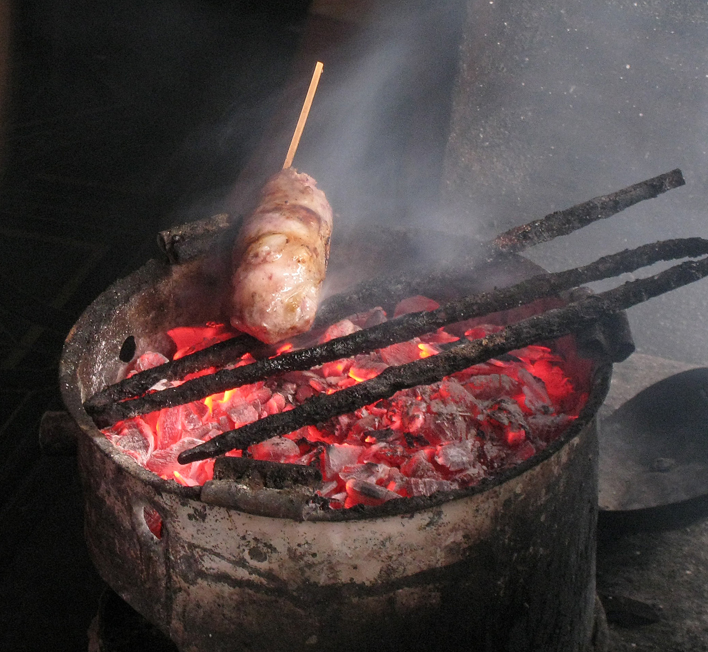 Grilling of Sate Buntel (minced goat meat in muscle fibre). A specialty of Solo (Surakarta) city, Central Java, Indonesia.